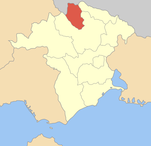 Locator map of Kotyli community (Κοινότητα Κοτύλης) in Xanthi prefecture (Νομός Ξάνθης) in Greece.